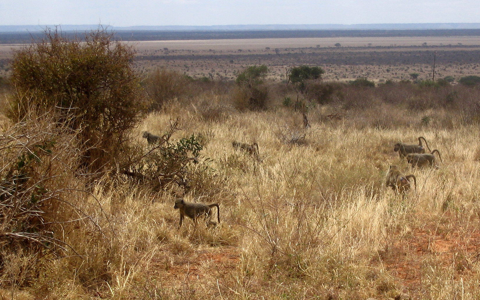 Papio cynocephalus (Yellow Baboon) group in Tsavo East National Park, Kenya.